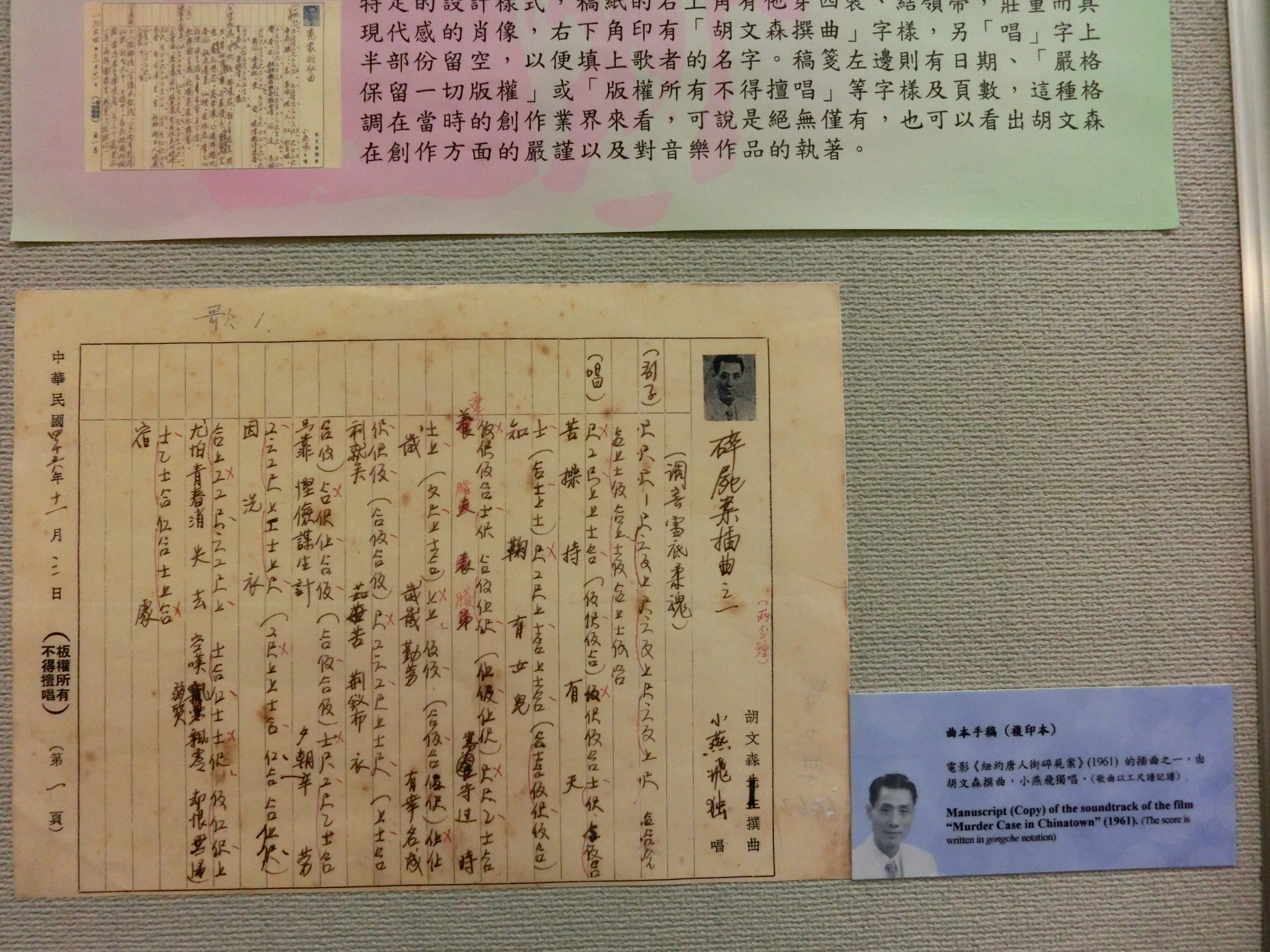 Hong Kong Central Library exhibition on 10th floor 胡文新 Woo Man-Sum Songs Emperor memorial exhibit Nov-2013